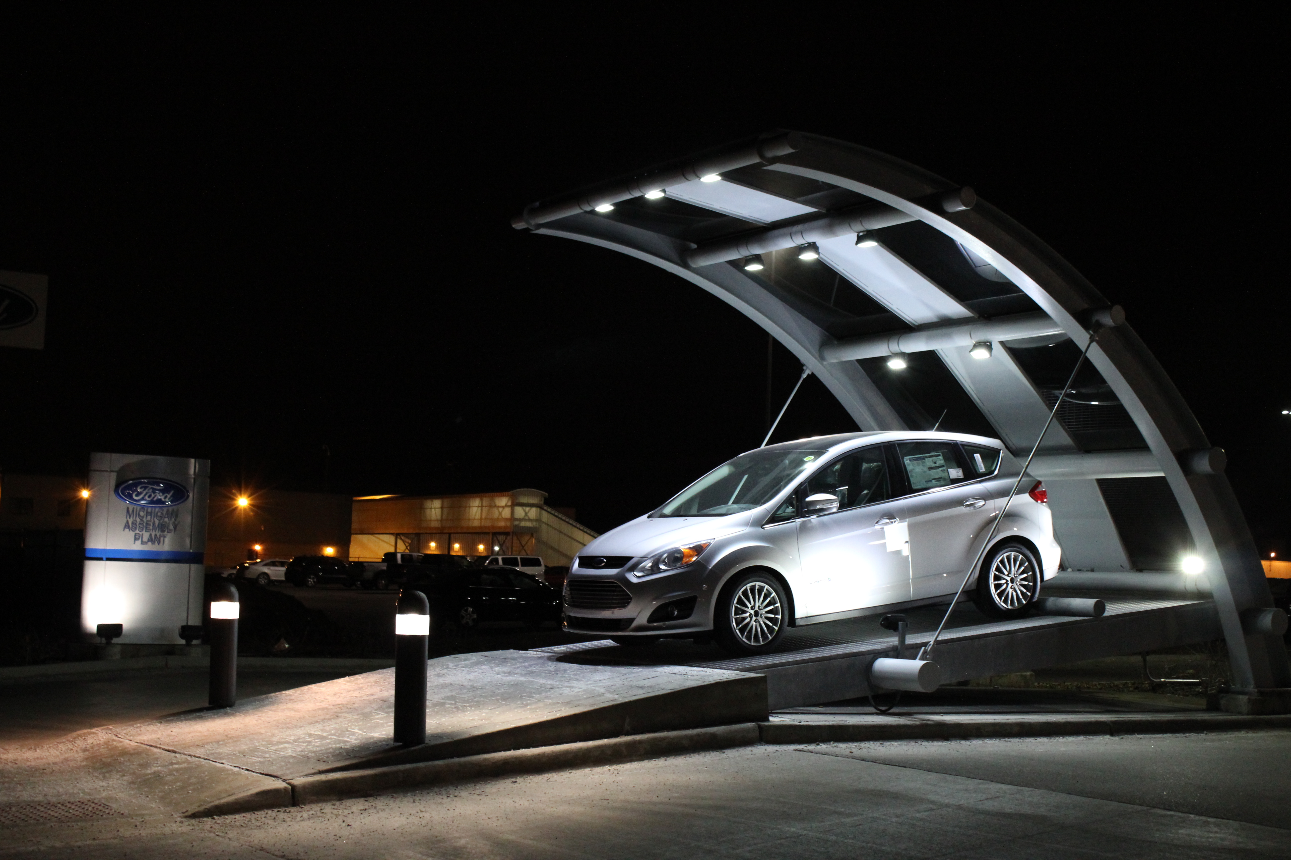 Ford C-Max Hybrid on display at the entrance to the Ford Michigan Assembly Plant, 38303 Michigan Avenue, Wayne, Michigan. - Google Maps - Google Earth